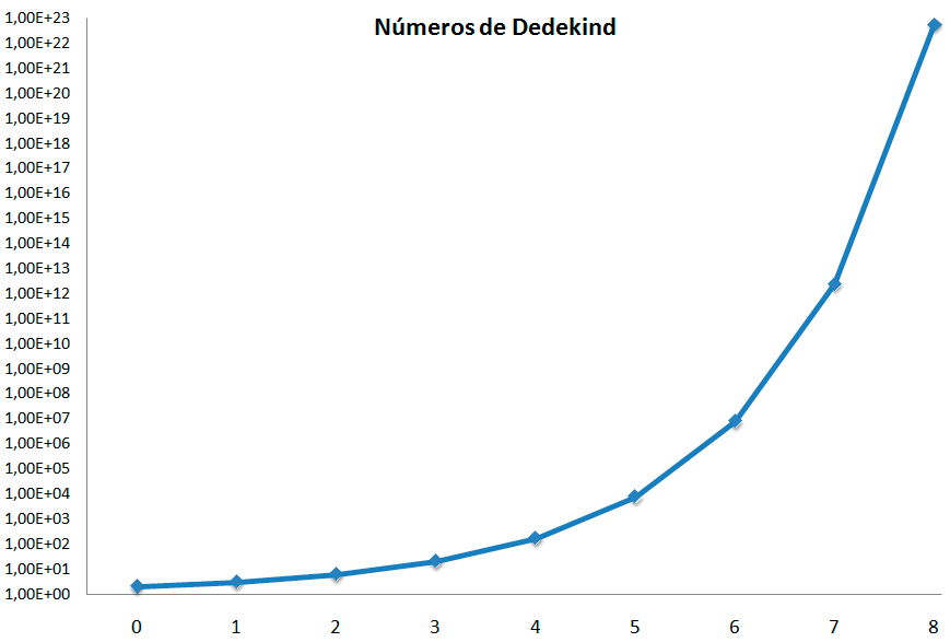 Dedekind numbers